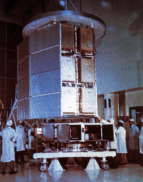 This image shows the HEAO-1 Satellite, a NASA High Energy Astronomy Observatory.